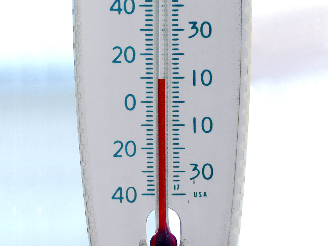 Thermometer